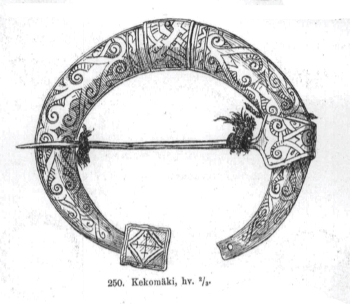 Drawing of a Karelian penannular silver brooch by Theodor Schvindt in 1893 which he had excavated earlier in Käkisalmi, Karelia.